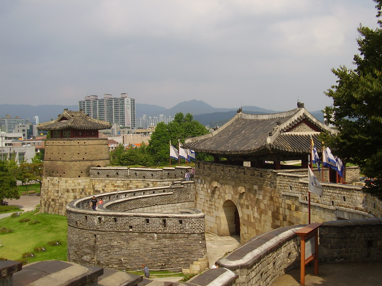 Hwaseong Castle, West gate.